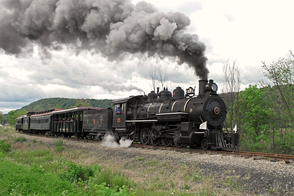 June 4th, 2006 East Broad Top 2-8-2 #15 heading North out of Orbisonia